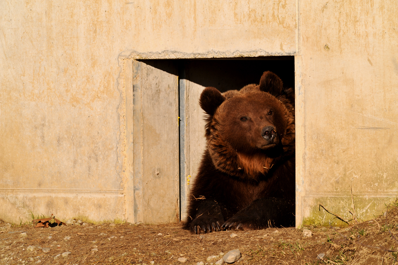 She-bear Björk in the bearpark; Berne, Switzerland.